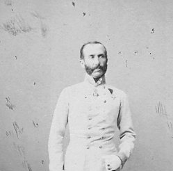 Archduke Karl Ferdinand of Austria